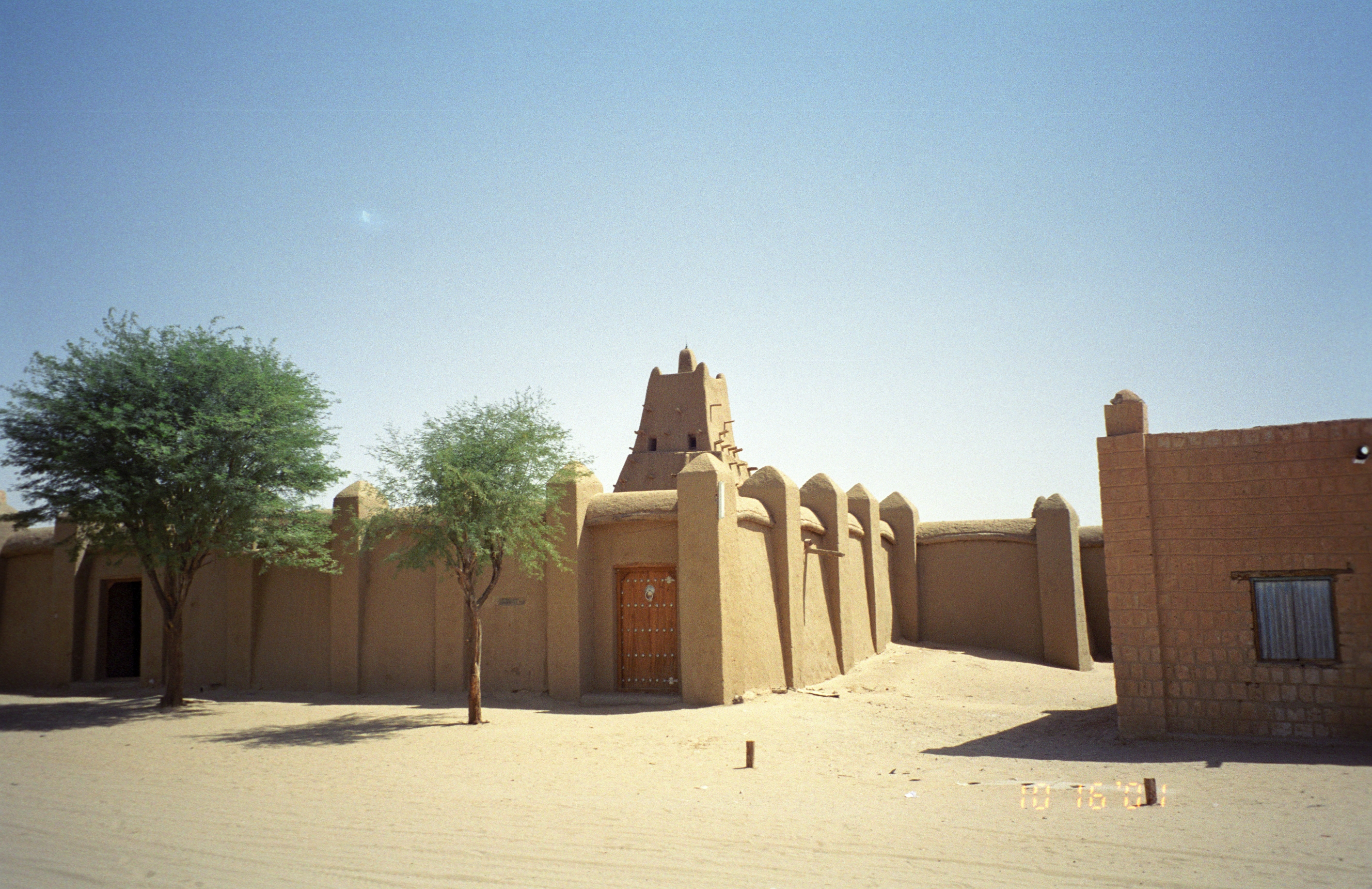 Sankore Mosque in Timbuktu.